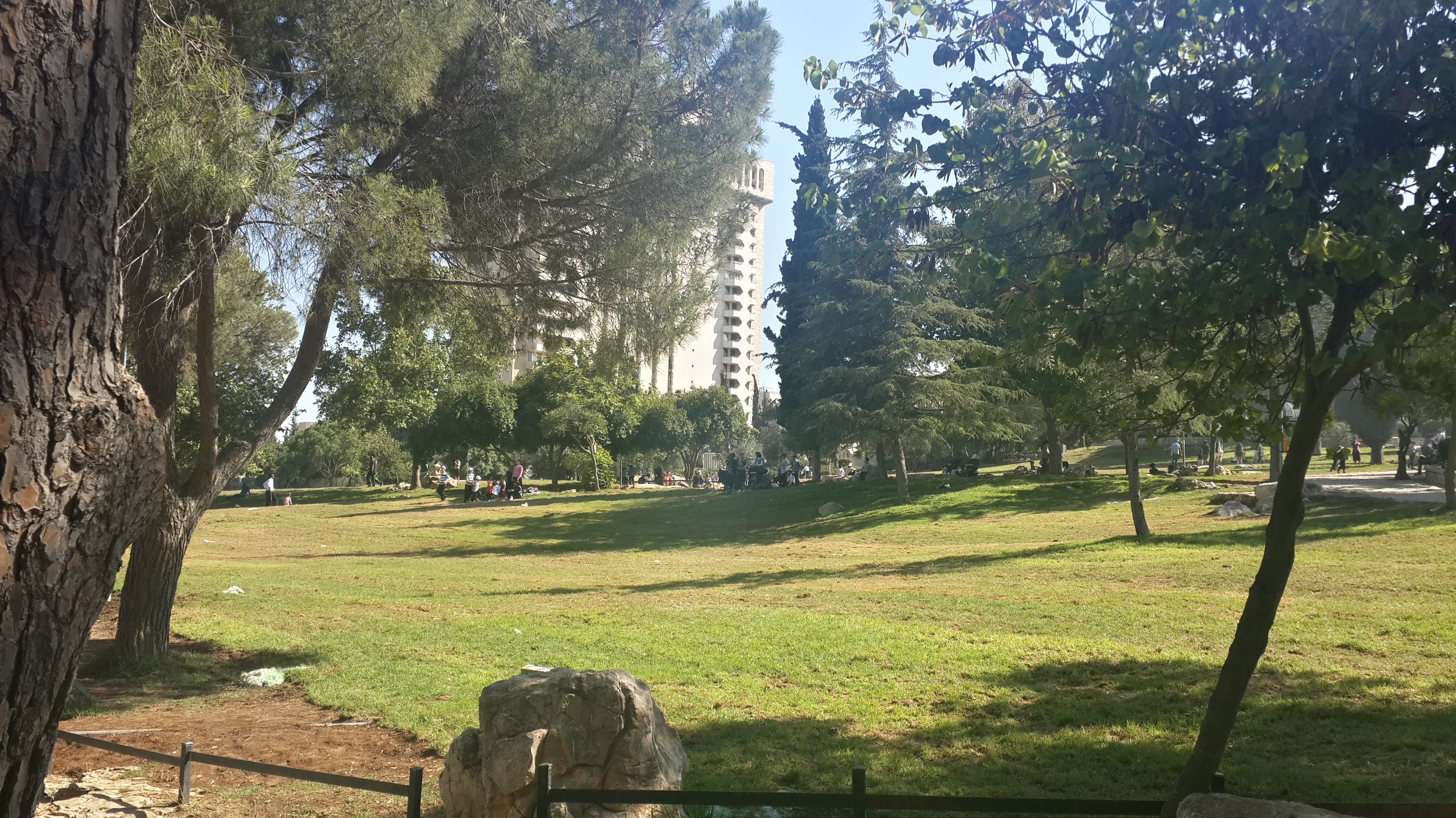 independence park jerusalem, Geography of Israel